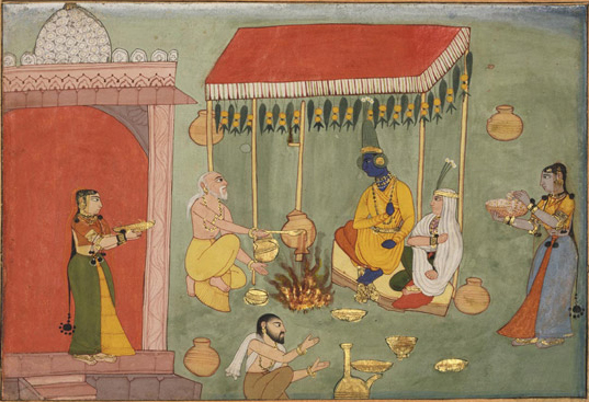 Satyabhama was so esteemed for her beauty and virtuous demeanor that she was regarded as a jewel among women. Due to a nasty struggle over a particularly bedazzling gem, she was given in marriage to Krishna by her father. In this scene, a Brahmin priest performs the simple ceremony under a red canopy. This painting demonstrates some of the ways in which artists at a regional court in Rajasthan first introduced features of Mughal painting into the indigenous local tradition. For example, the contours of the figures have been softened and Krishna wears a Mughal-style garment. Further, the conventional red square that indicates the focus of the scene is replaced by a Mughal-like three-dimensional red canopy. The poles are cleverly used to frame the main figure